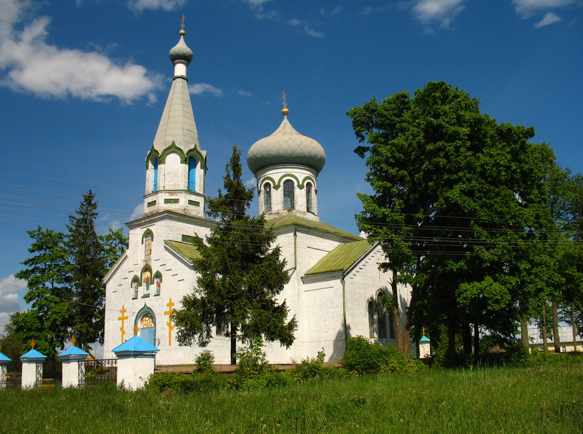 Сhurch of St. George in Sitcy